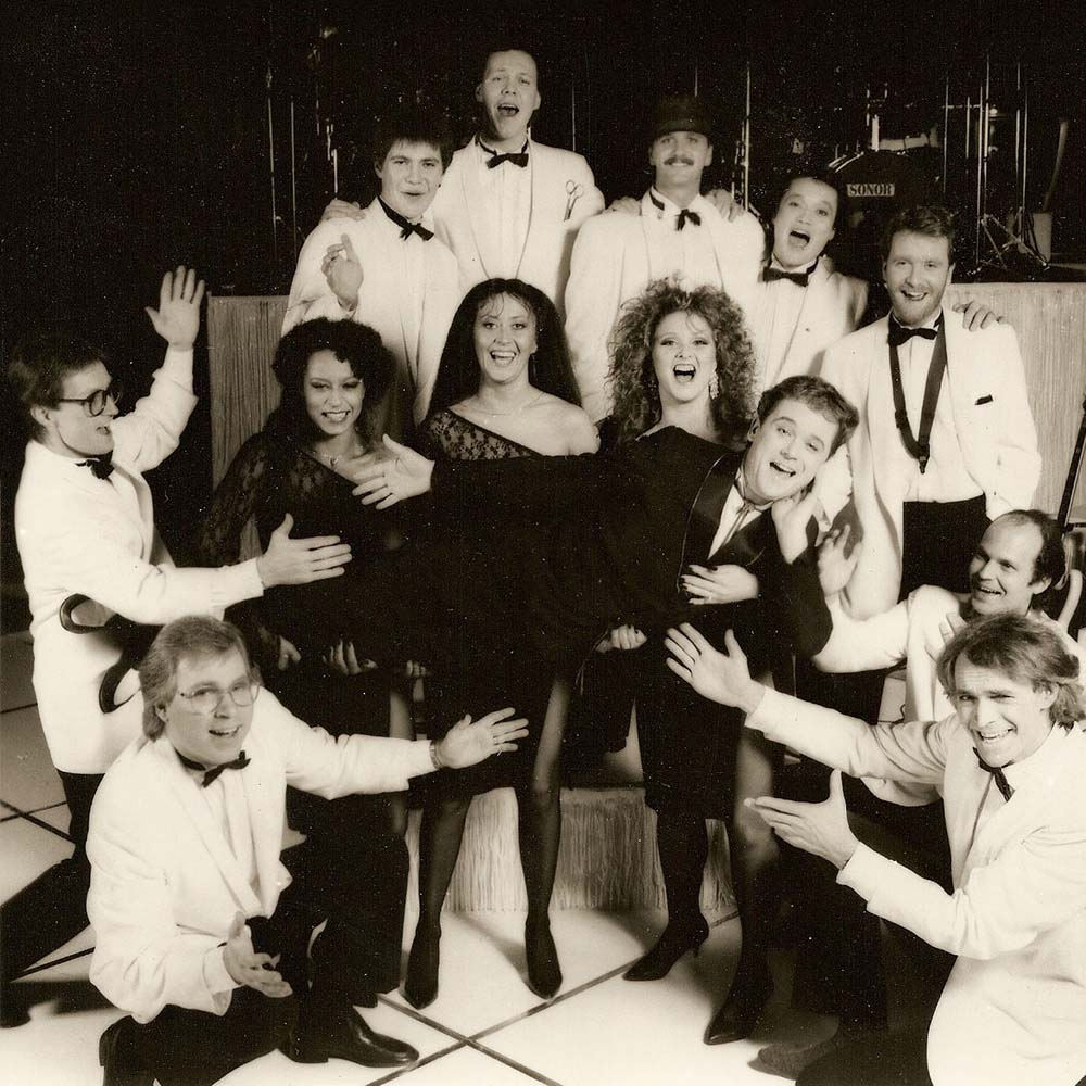 The Soulband Show at Hamburger Bors Stockholm